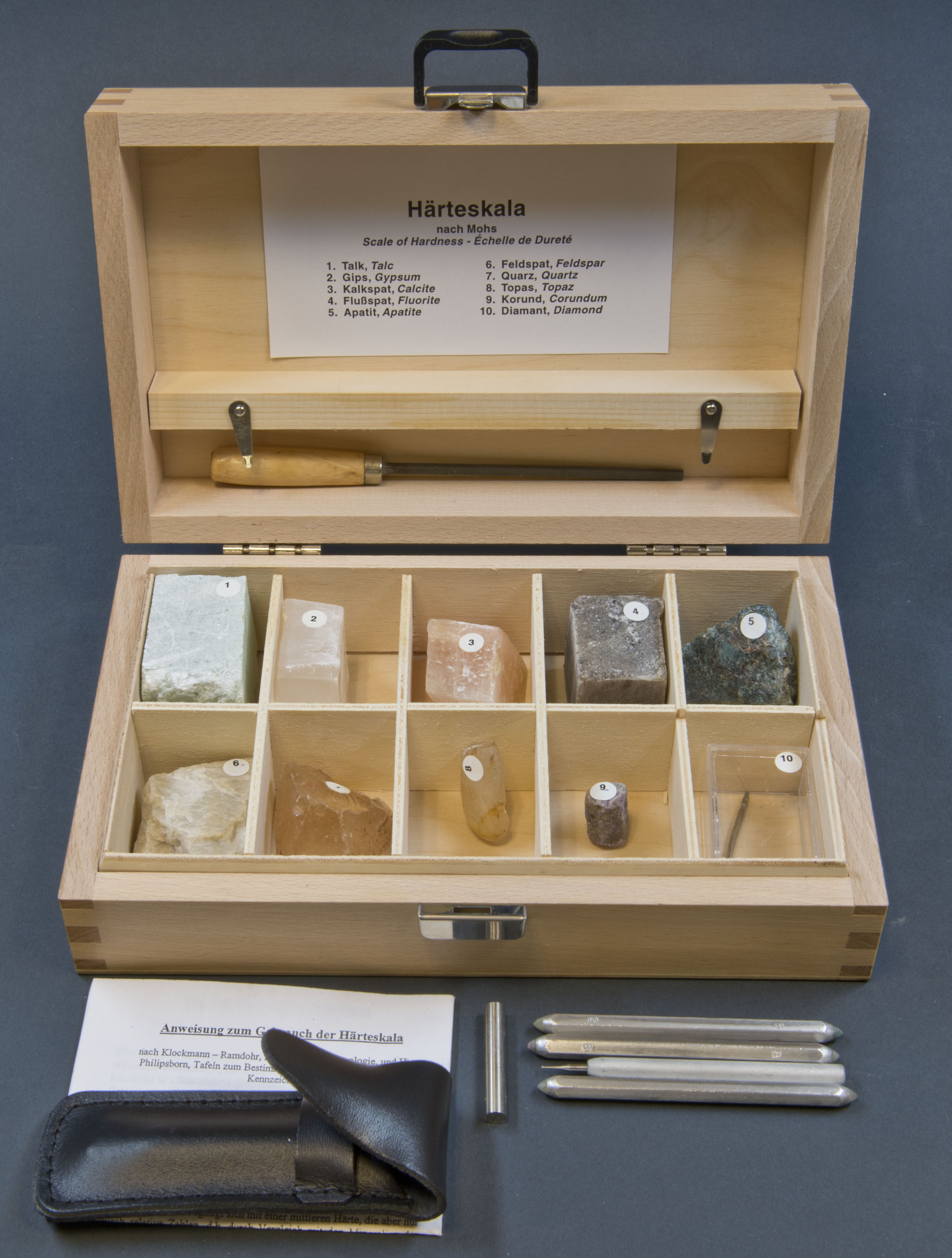 Mohs scale of mineral hardness, box with minerals in each hardness of 1 to 10